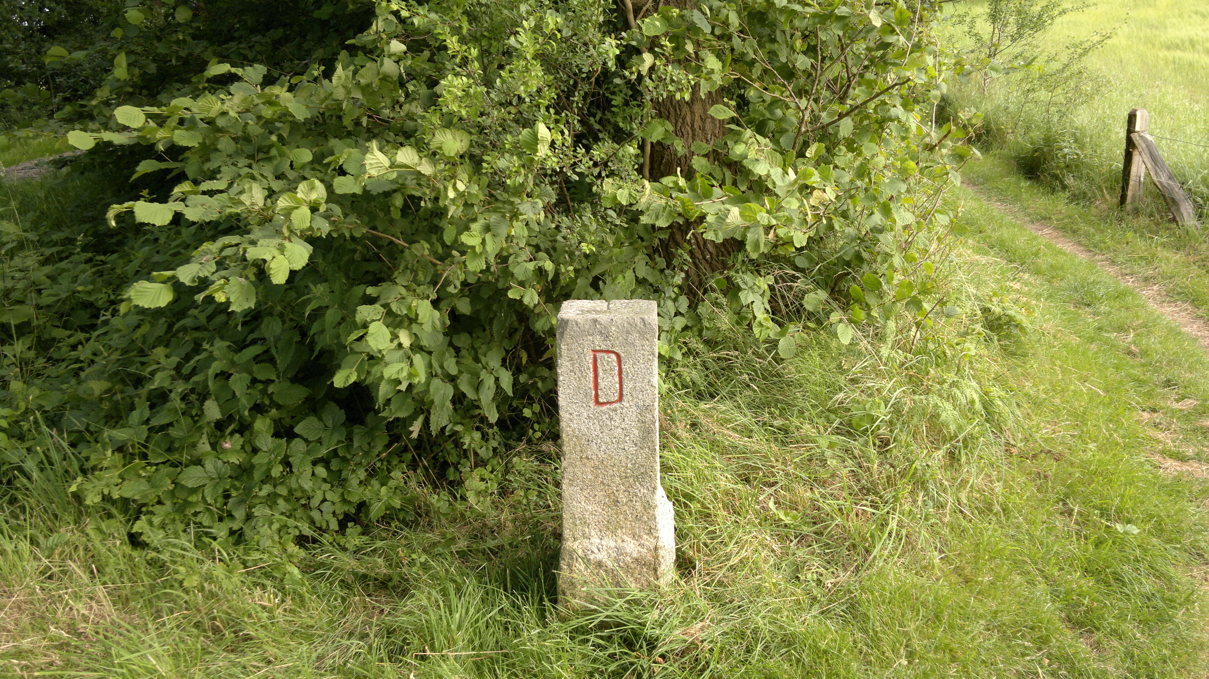 Border stone marking the border between Denmark and Germany